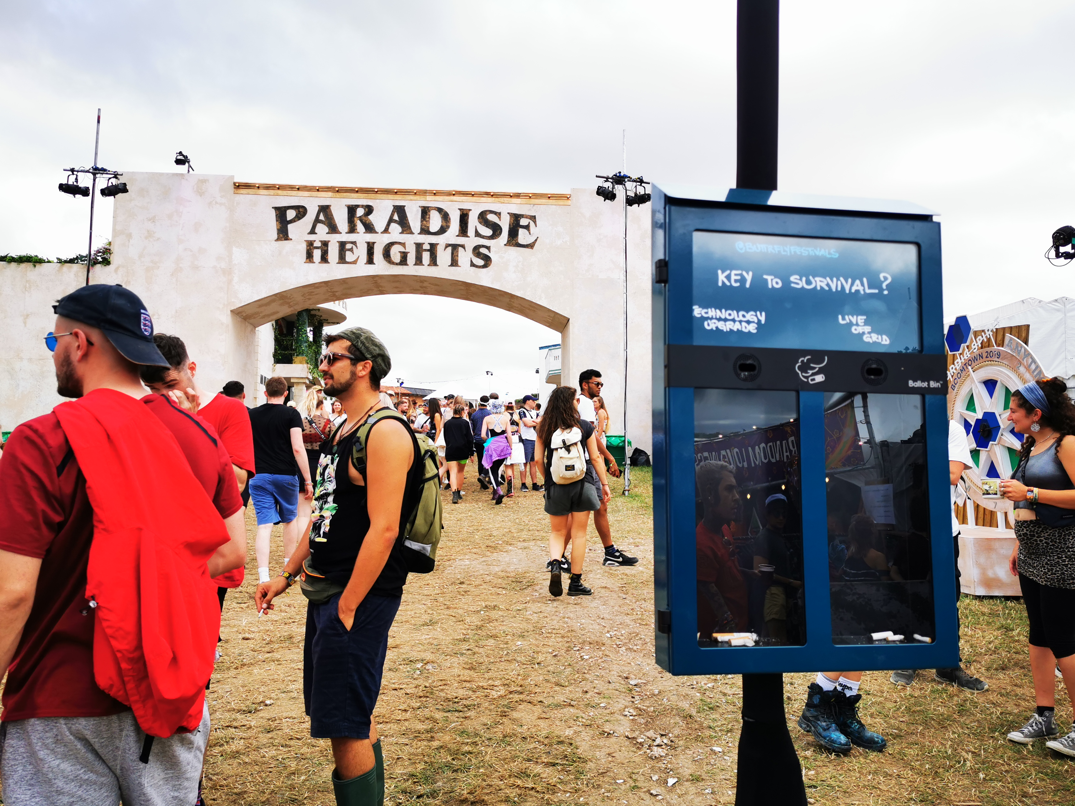 A cigarette butt ballot box within The Paradise Heights district at Boomtown Fair Chapter 11, held in August 2019.